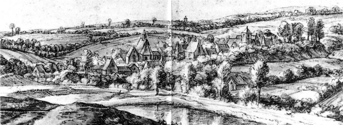 Drawing of Obbrussel by Daniël Schellinks ca. 1650